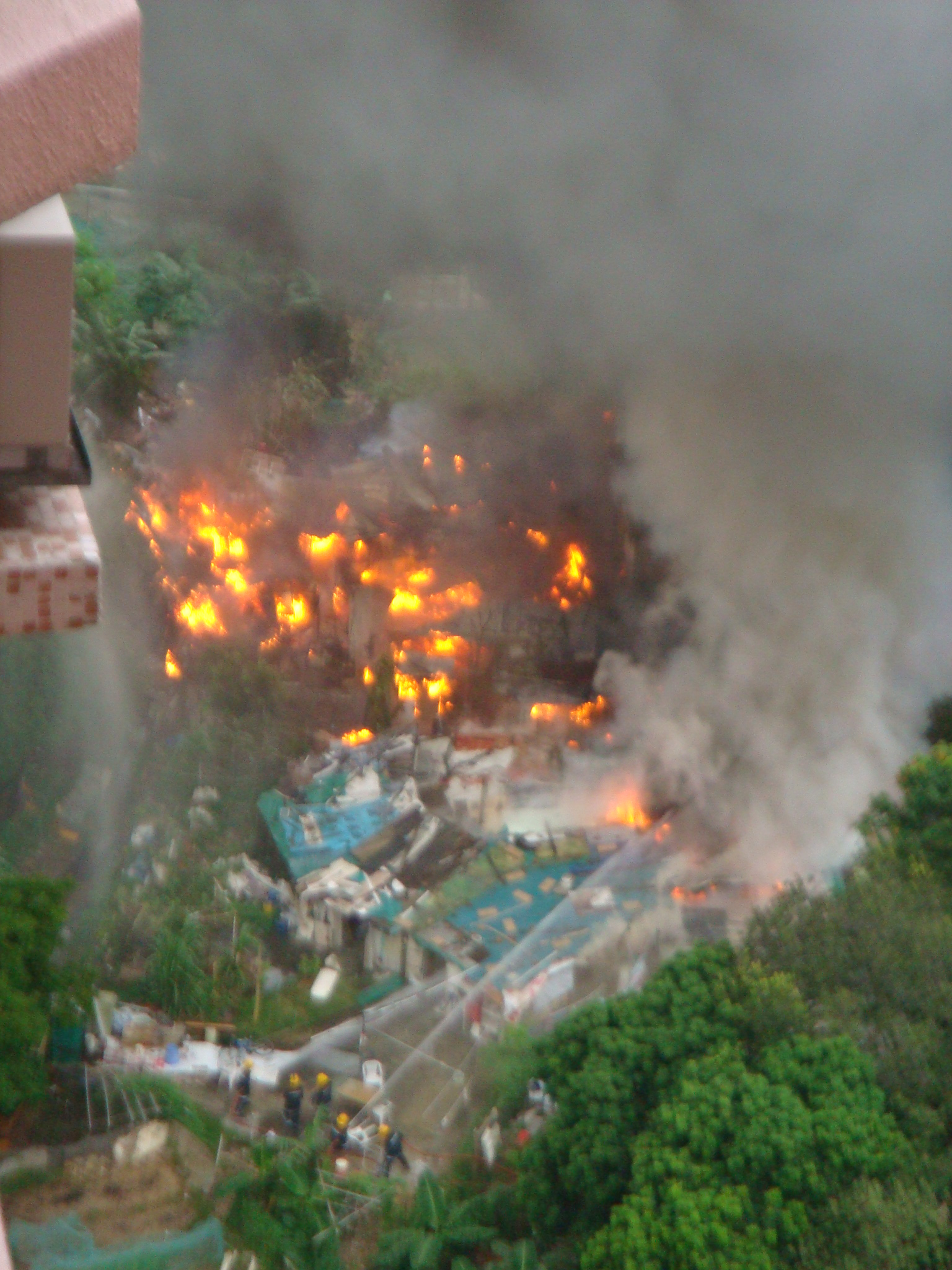 Fire in Kau Wa Keng